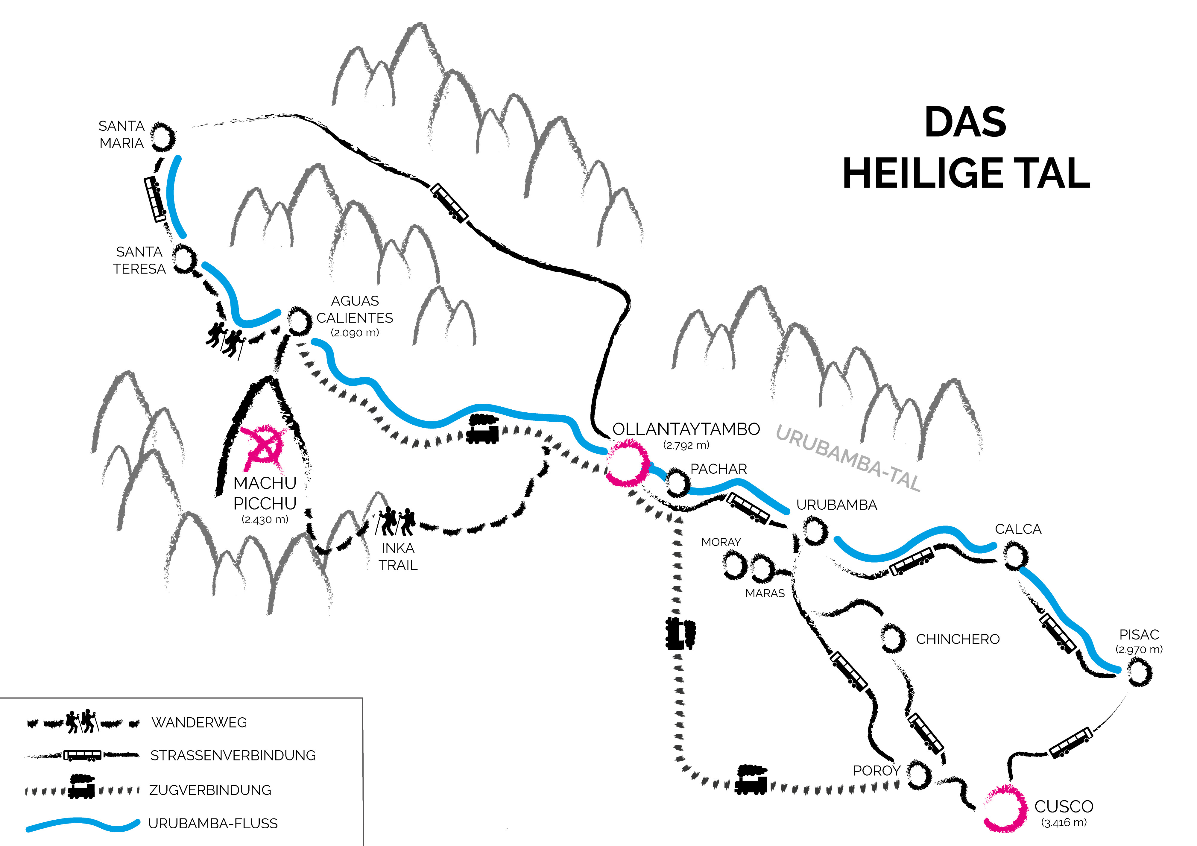 Karte des Sacred Valley in Peru mit den Hauptorten Cusco, Machu Picchu, Ollantaytambo, Urubama & Pisac You're welcome to use this picture free of charge, as long as you follow the license terms. As a matter of courtesy a link (dofollow links are welcome!) to is much appreciated. Thank you! ————————–—–—–—–—–—–—–—–—–—–—–—–—–—–—– Du kannst dieses Bild gemäß der Lizenzbestimmungen unentgeltlich nutzen. Über eine Verlinkung (dofollow am liebsten) auf freuen wir uns. Danke!